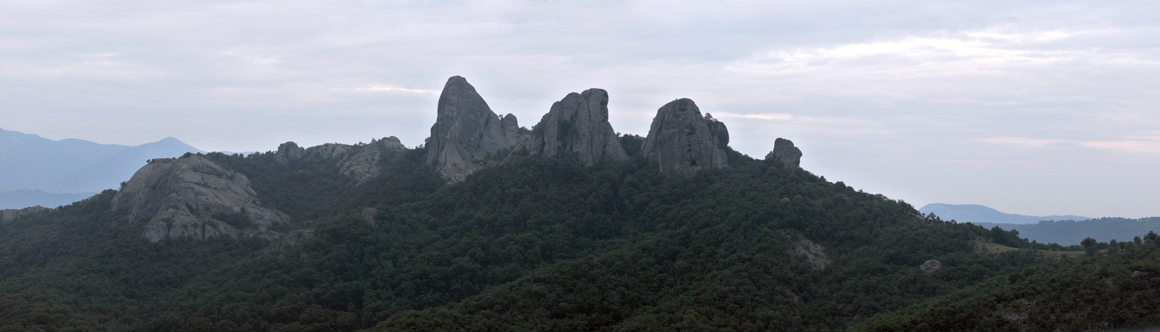 Thrakika meteora, north of Iasmos, Rhodope, Greece.